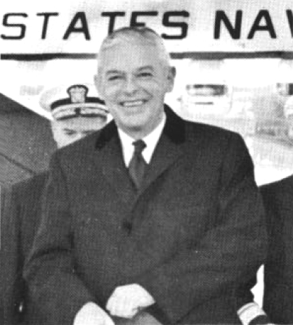 Paul Nitze as the U.S. Secretary of the Navy. He was in office from 29 November 1963 to 30 June 1967.